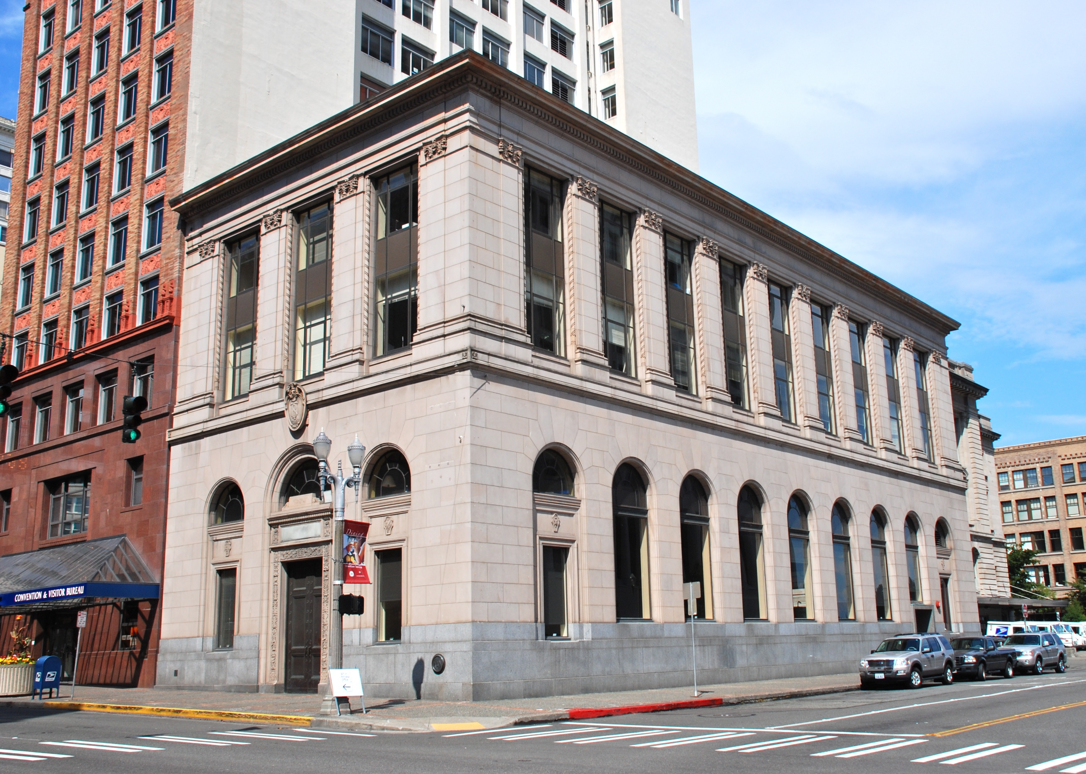 The former National Bank of Tacoma building, at Pacific Avenue and E. 12th Street in downtown Tacoma, Washington, viewed from the southwest.